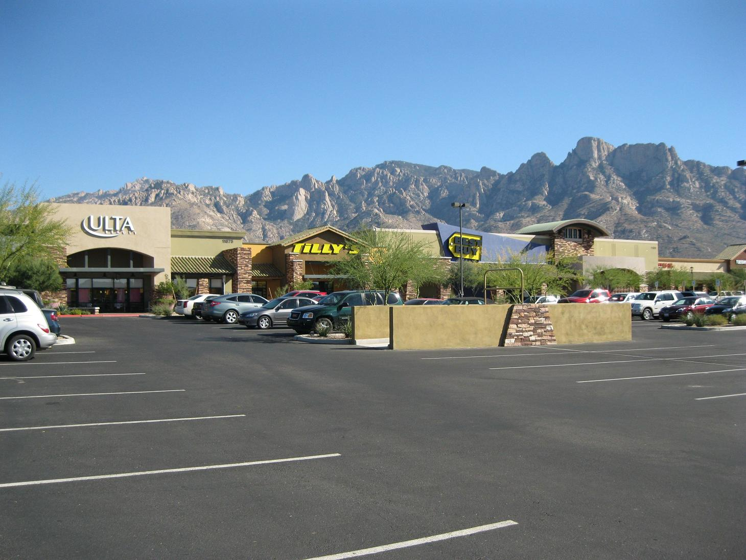 The photo shows several stores in the Oro Valley Marketplace with Pusch Ridge in the background.